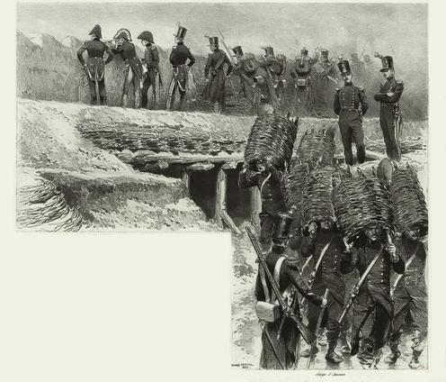 Engineer Corps, Siege of Anvers (1832). This illustration appeared in L'Armee Française by Jules Richard, illustrated by Édouard Detaille, first published in 1885.